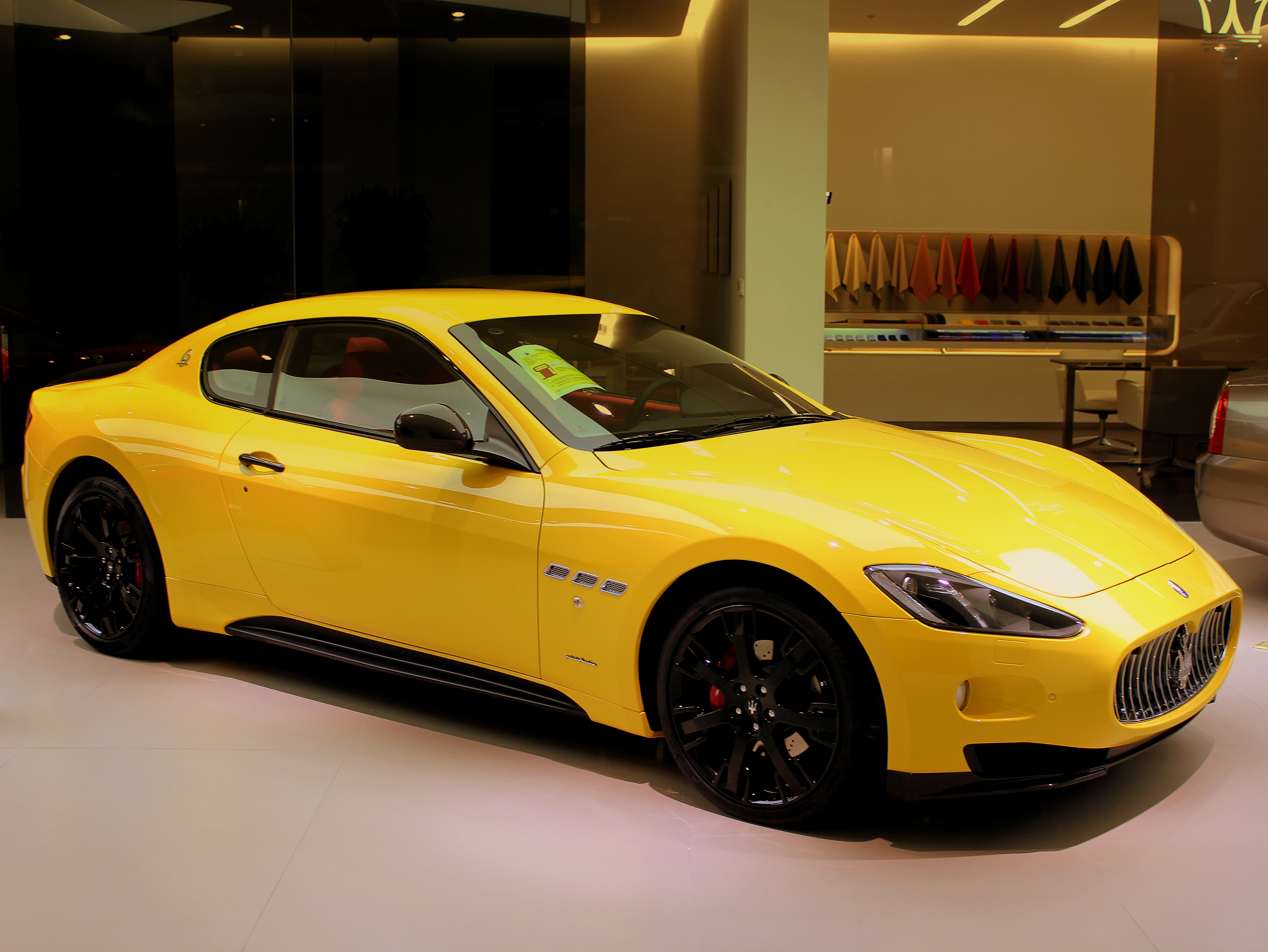 FERRARI DEALER NEAR THE PARK PLAZA HOTEL BEIJING CHINA OCT 2012